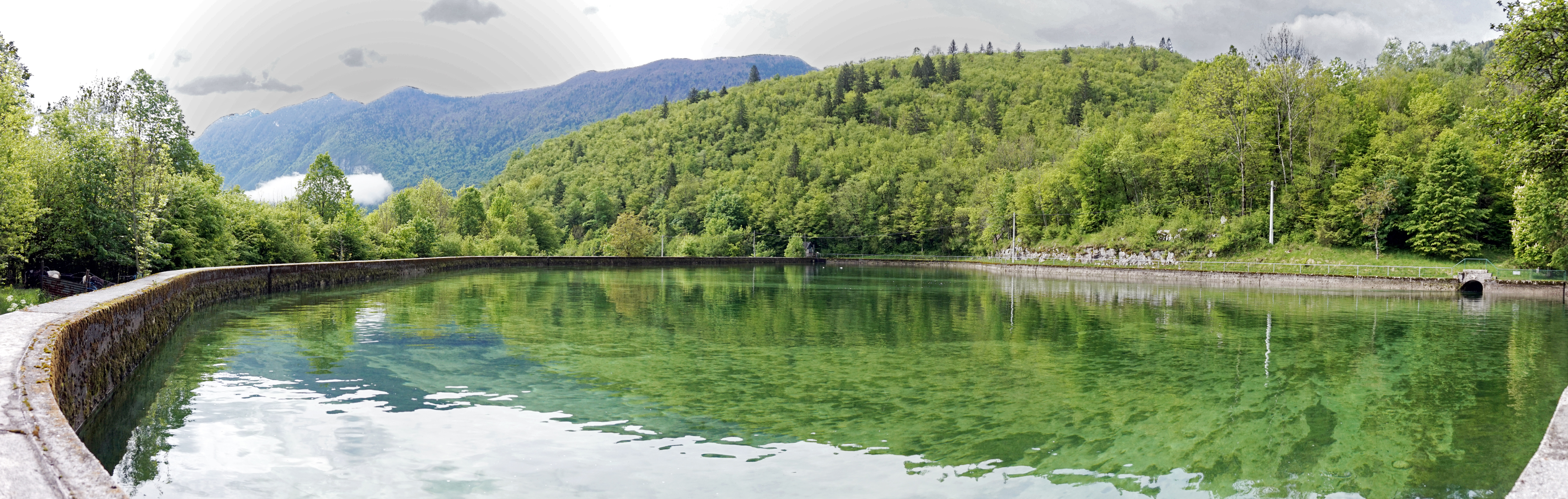 An artificial lake in Plužna, Slovnia.This photograph was taken with a Sony ILCE-5000